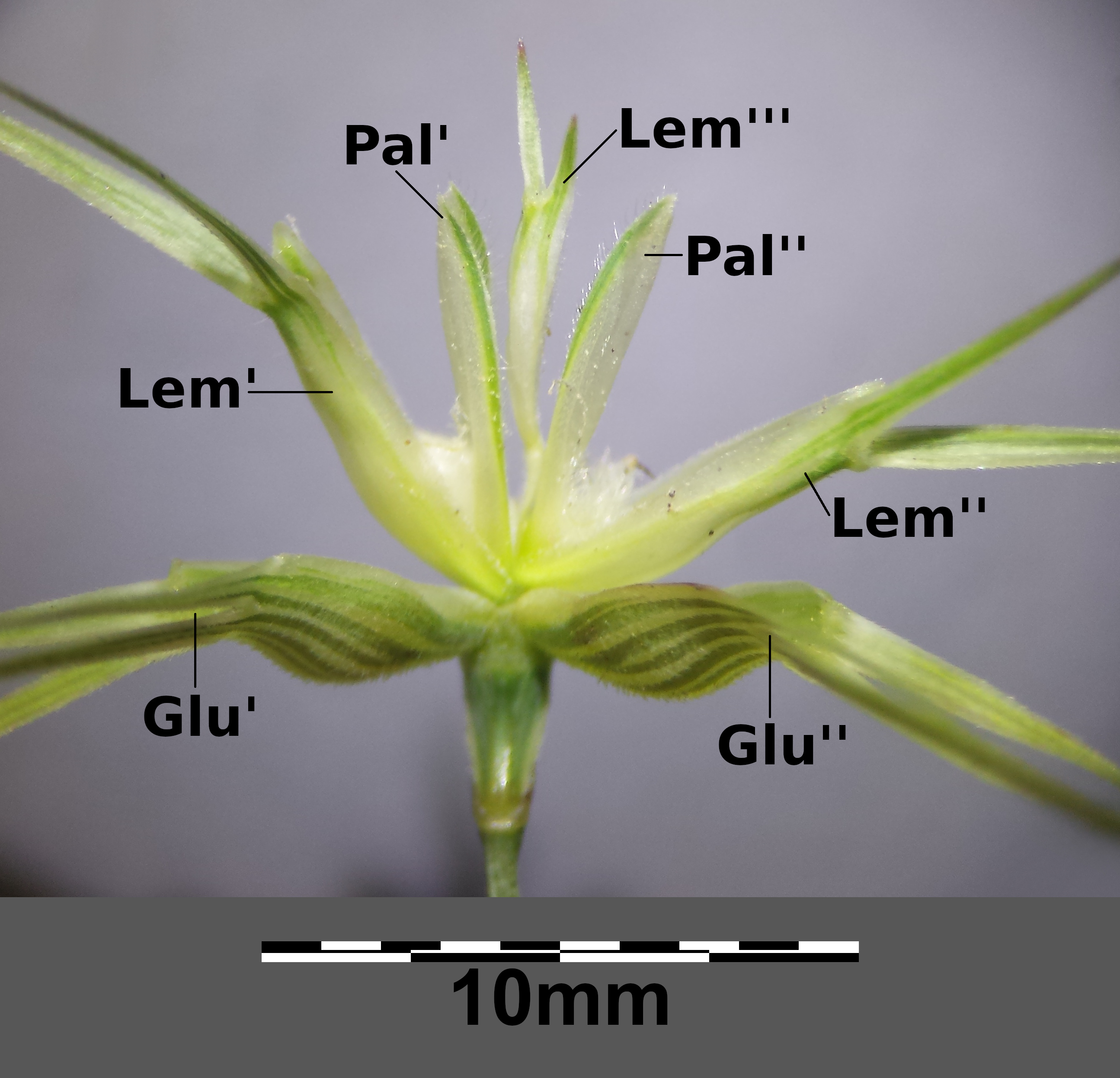 Spikelet expanded with: Glumae (Glu) Lemmata (Lem; Lem"' of sterile flower) Paleae (Pal) Taxonym: Aegilops geniculata ss Rottensteiner: Exkursionsflora für Istrien ISBN 978-3-85328-067-6 Location: southweast of Stara Baška, community Punat, Krk, County Primorje-Gorski kotar, Croatia Habitat: rocks nearby seaside